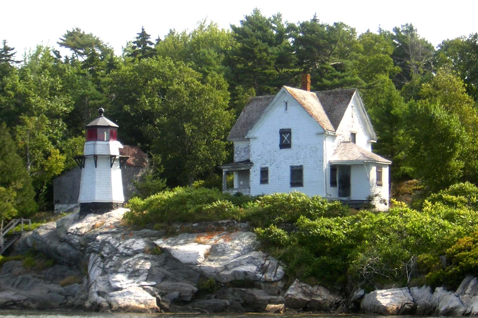 Perkins Island Light, Georgetown, Maine, USA including keeper's quarters